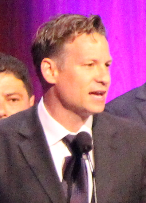 Richard Engel accepts the Peabody Award for NBC, MSNBC on stage with (from left to right) Randy Brown, Jamie Novogrod, Madeleine Haeringer, Ben Plesser and Bill Neely.